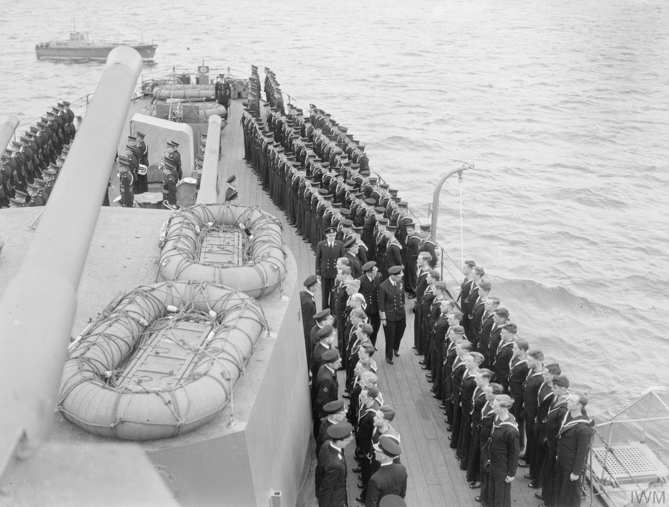 The King Visits the Home Fleet. 6 June 1942, on Board Ships of the Home Fleet. HM The King inspecting the ship's company on board HMS MANCHESTER. See also : File:The King Visits the Home Fleet. 6 June 1942, on Board Ships of the Home Fleet at Scapa. A9071.jpg File:The King Visits the Home Fleet. 6 June 1942, on Board Ships of the Home Fleet at Scapa. A9072.jpg File:The King Visits the Home Fleet. 6 June 1942, on Board Ships of the Home Fleet at Scapa. A9073.jpg